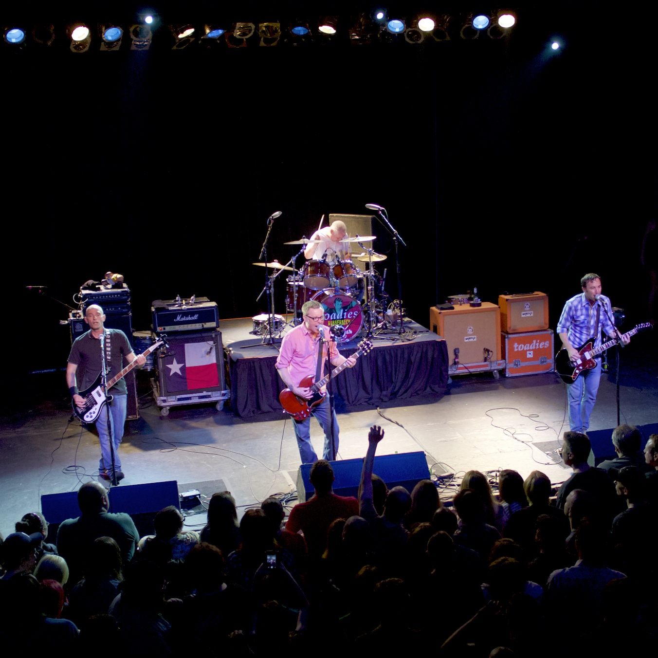 Toadies performing at the Theatre of Living Arts in Philadelphia, PA on April 26, 2014, during the Rubberneck 20th Anniversary Tour.